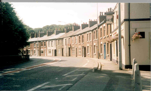 The Crescent, Disley On the main Stockport to Buxton road this was one of the main housing areas in Disley in the mid 19th century.